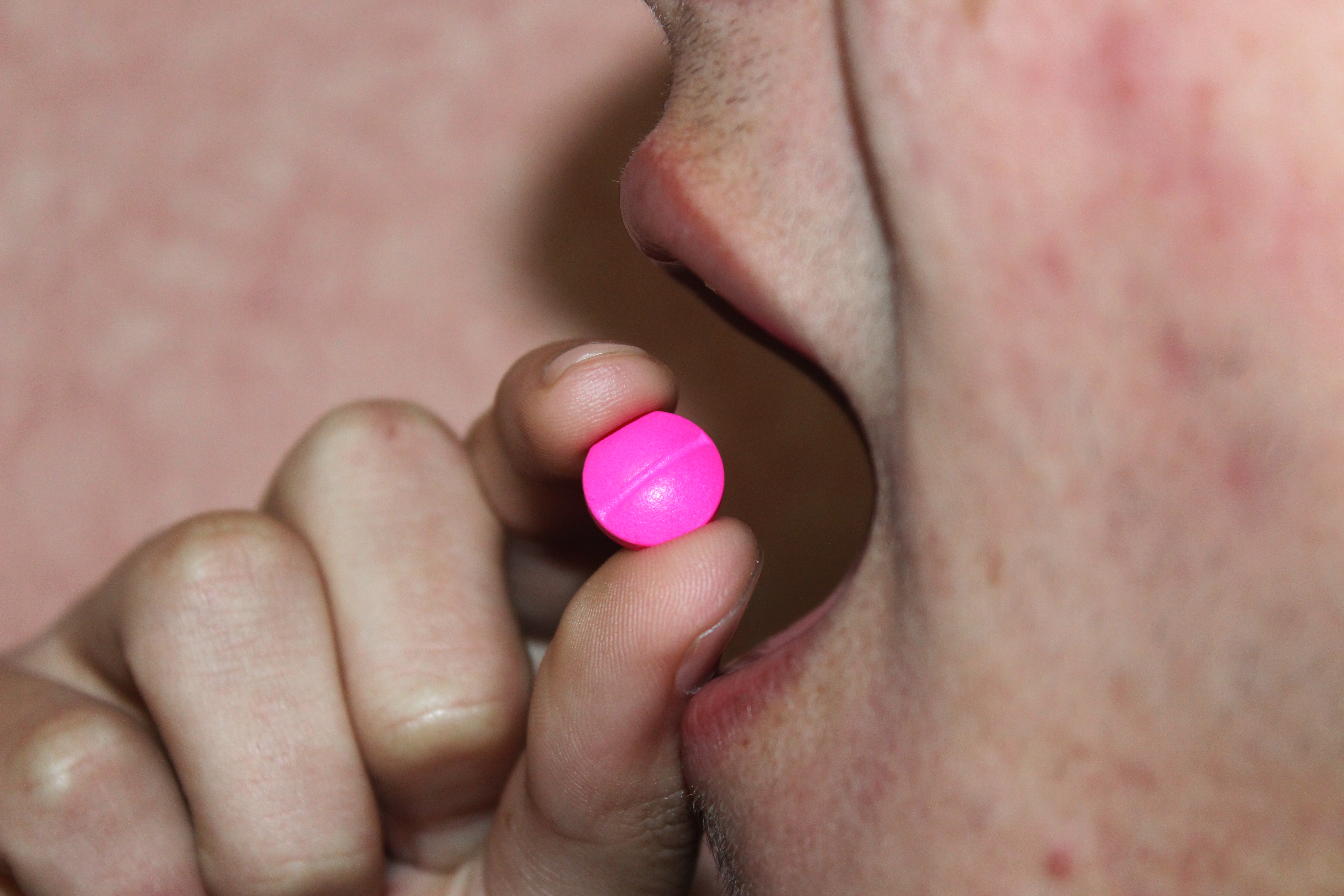 Oral administration of tablets